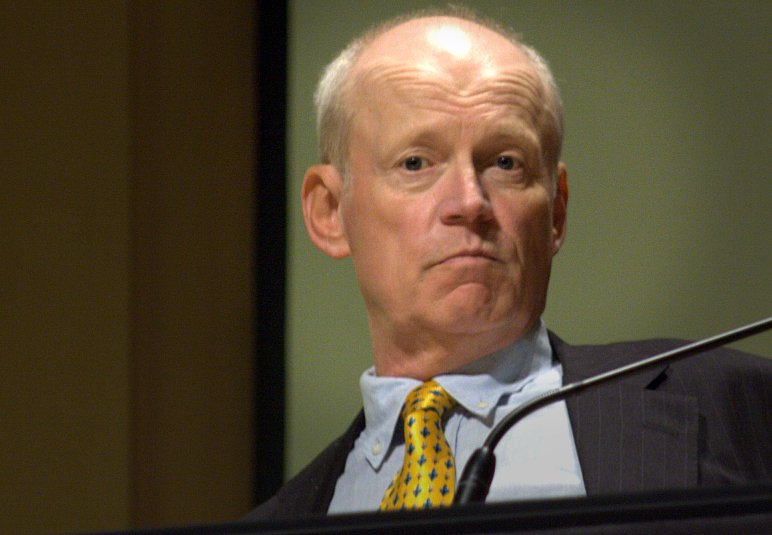 Author etc. Göran Hägg at the Gothenburg bookfair 2008.